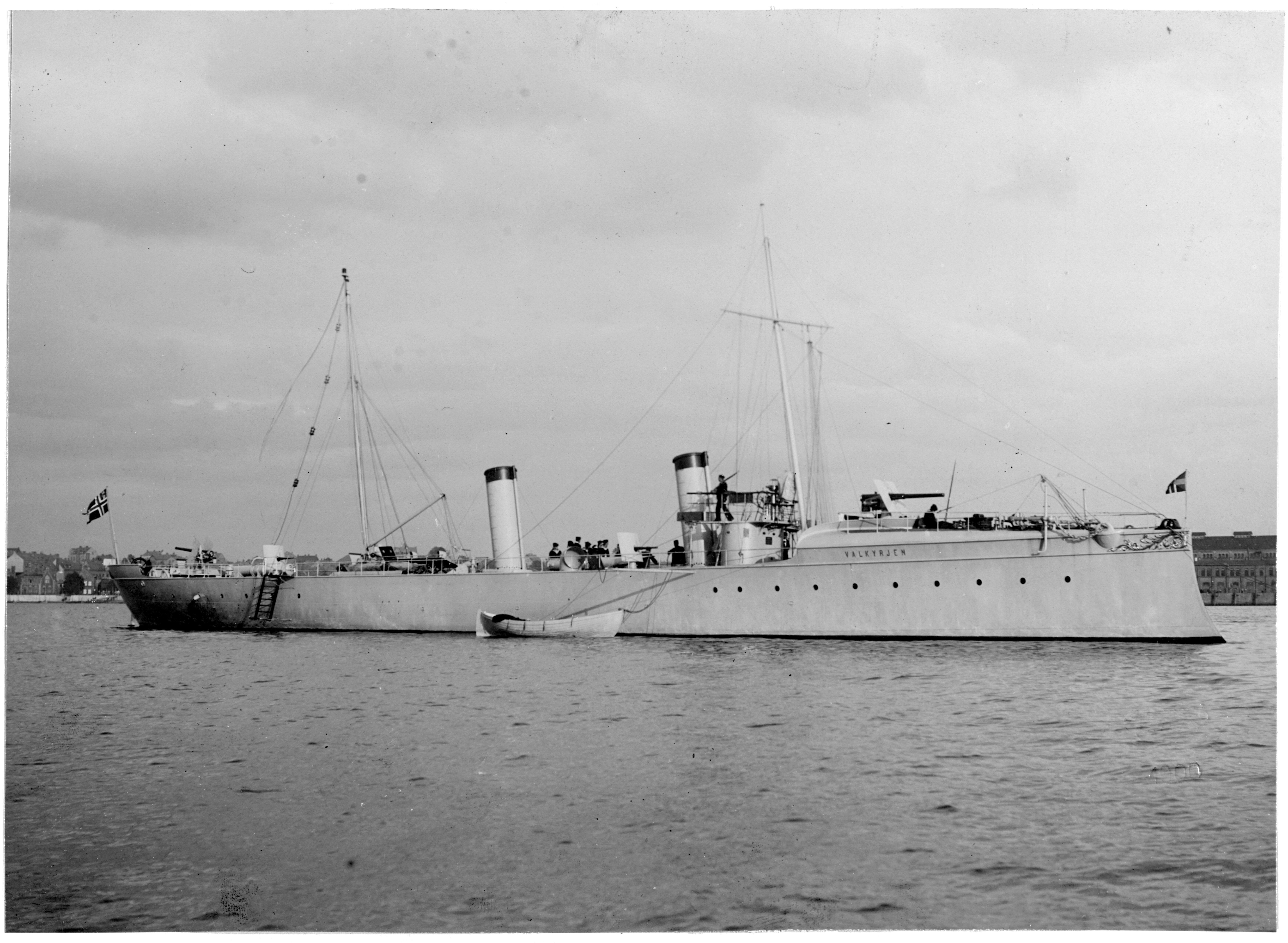 Norwegian torpedo boat destroyer Valkyrjen (1897–1922)